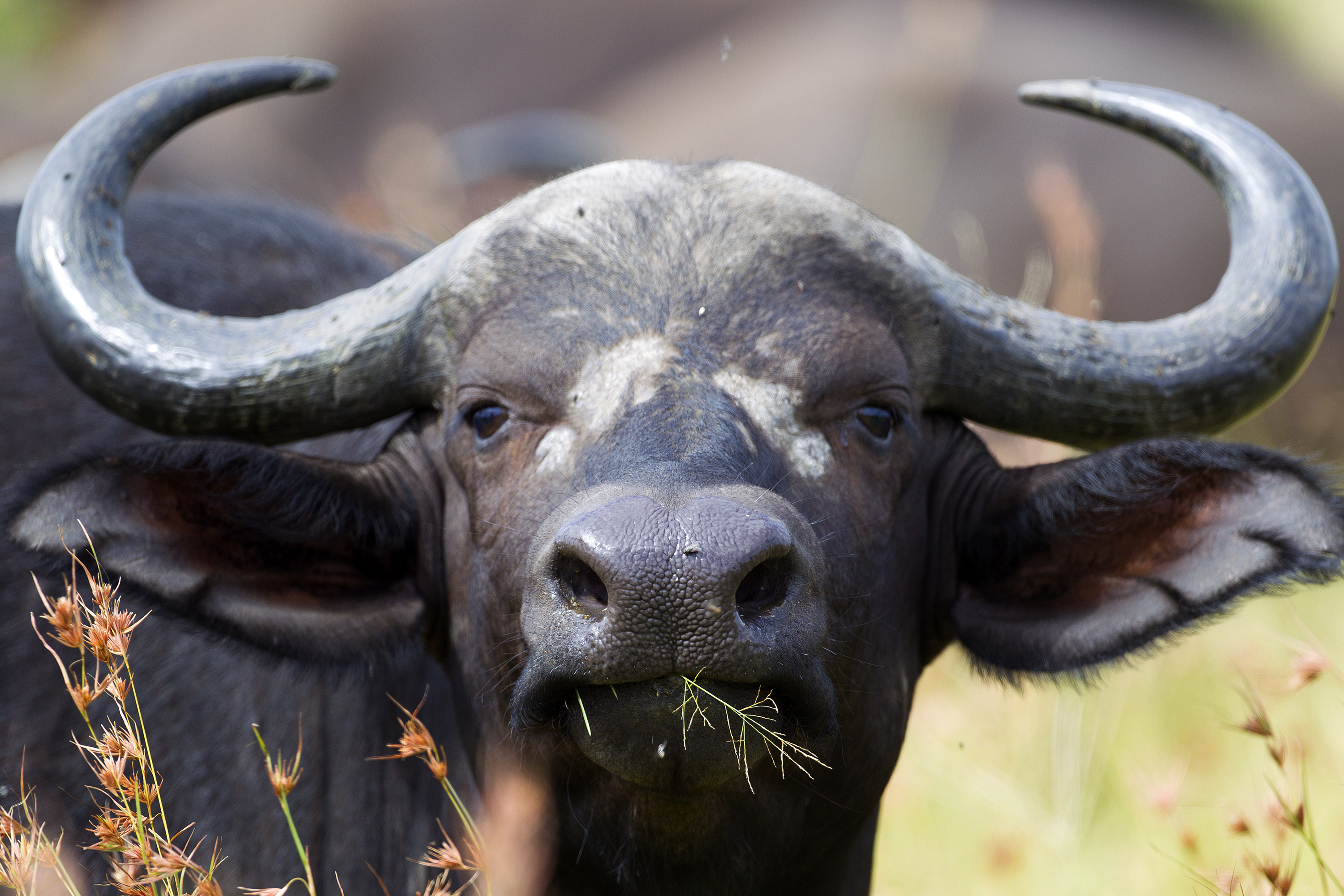 African buffalo in Kruger National Park